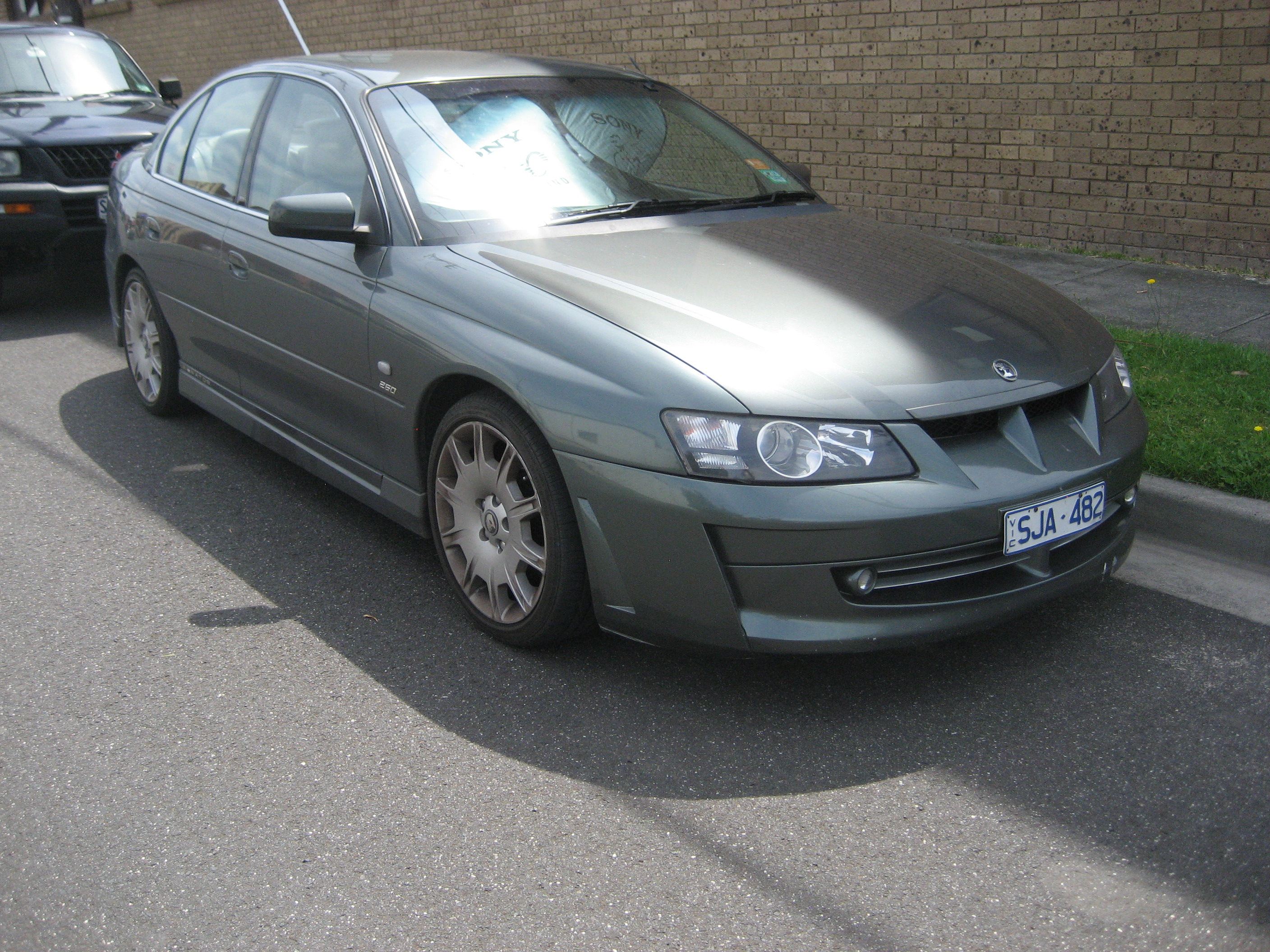 HSV Senator (Y Series)